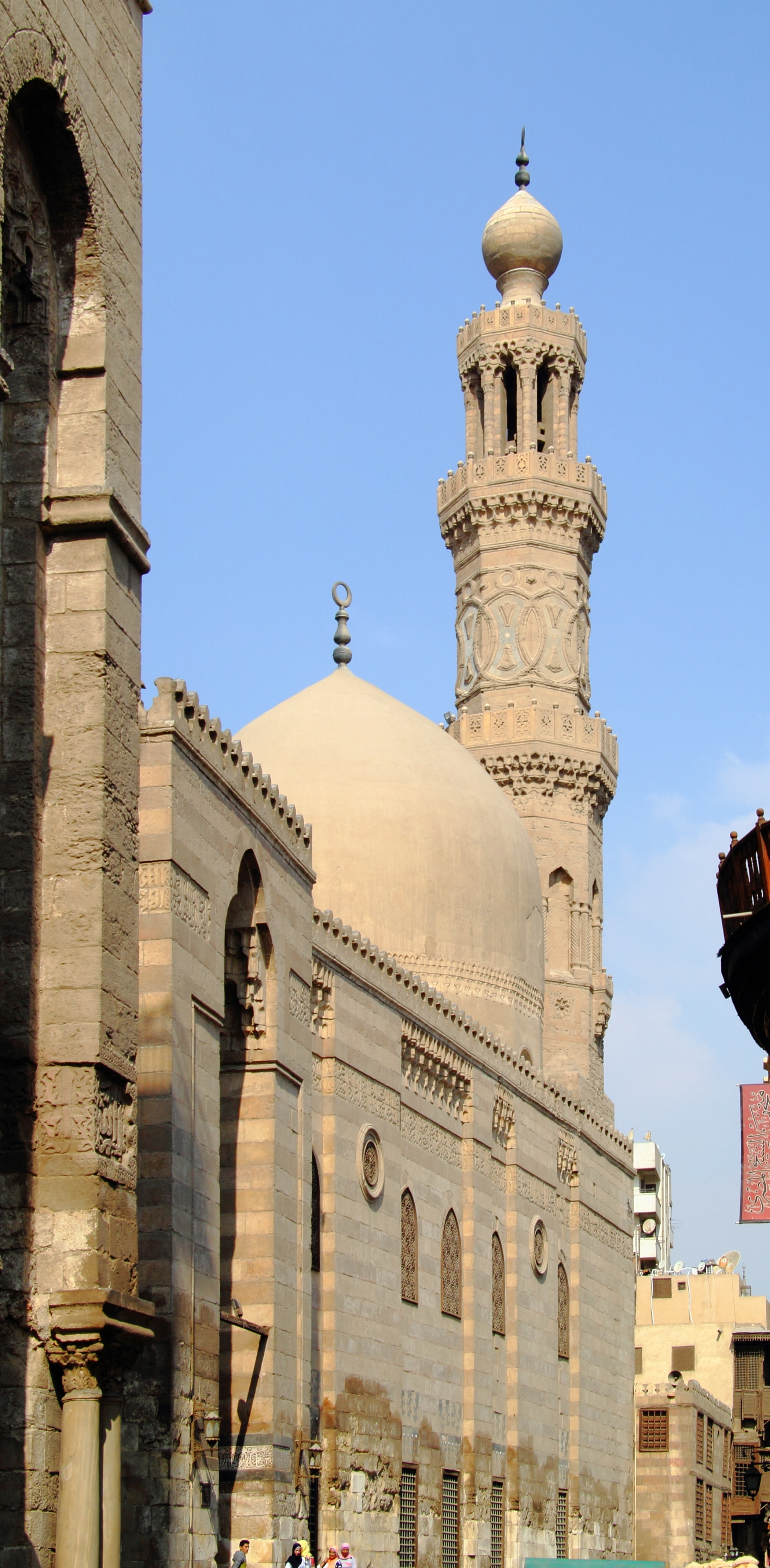 Cairo, Egypt: Mosque-Madrassa of Sultan Barquq, see also Barquq